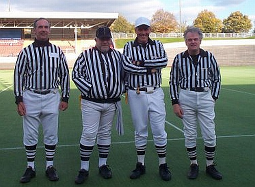 A British American Football Referees' Association (BAFRA) officiating crew at Saffron Lane Stadium, Leicester, UK preparing to officiate at a BYAFA National Bowl game.